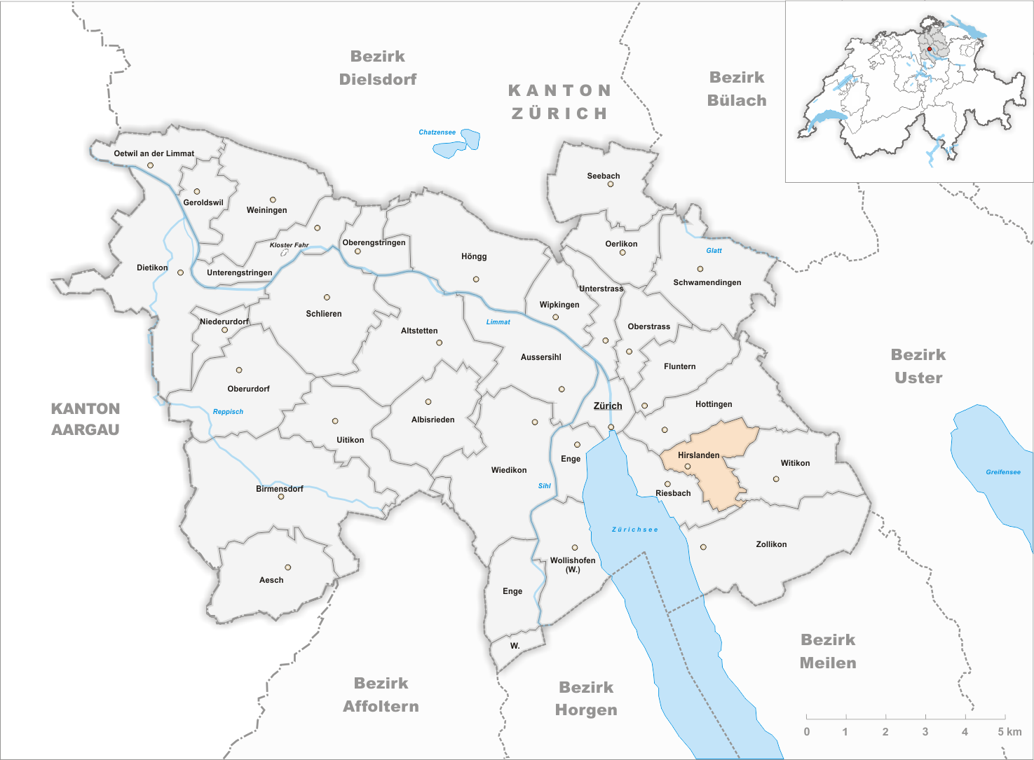 Municipality Hirslanden